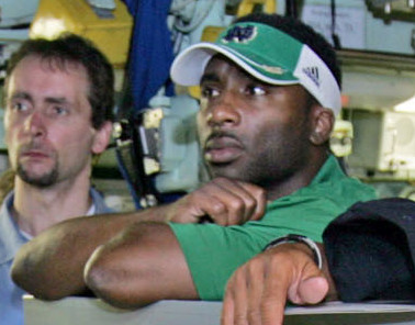 NORFOLK, Va. (Sept. 7, 2007) – Lt. Cmdr. Rich Rhinehart, executive officer of USS Norfolk (SSN 714), welcomes celebrities Raghib “Rocket” Ismail, Andre Reed and Jamie Farr to the attack submarine’s control room. U.S. Navy photo by Mass Communication Specialist 2nd Class Roadell Hickman (RELEASED)